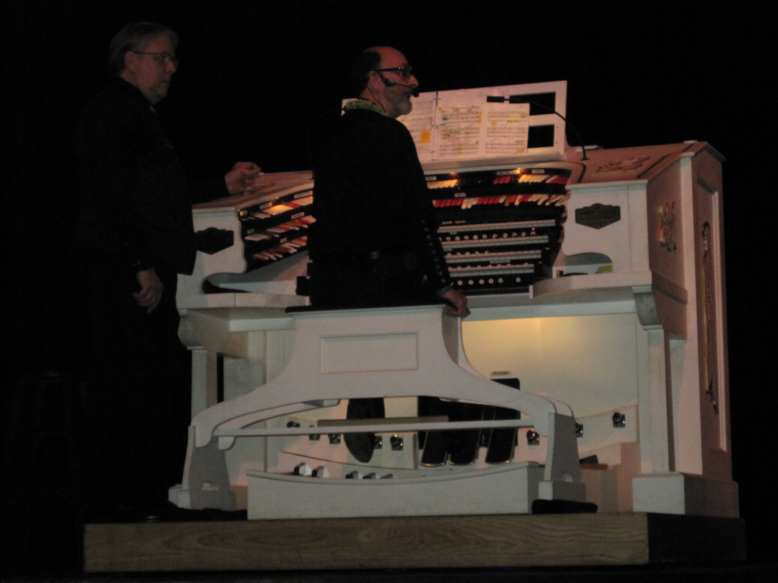 Robert Morton Theatre Organ, Hawaii Theatre, Honolulu, Hawaii, on National Register of Historic Places This organ console and its pipes were actually in the 1922 Princess Theatre before it was demolished in 1969. The console has been renovated, enlarged, refinished and redecorated, and converted from a pneumatic-and-setterboard combination action to an electronic capture system. A very similar organ was previously in the Hawaii Theatre when it opened in 1921, but was relocated to the Waikiki Theatre in 1937 or 1939. That instrument was removed in 2004, before the Waikiki 3 was demolished in 2005, and has been reinstalled in the Palace Theatre, Hilo, where it was merged with the original Palace Theatre instrument from 1929.